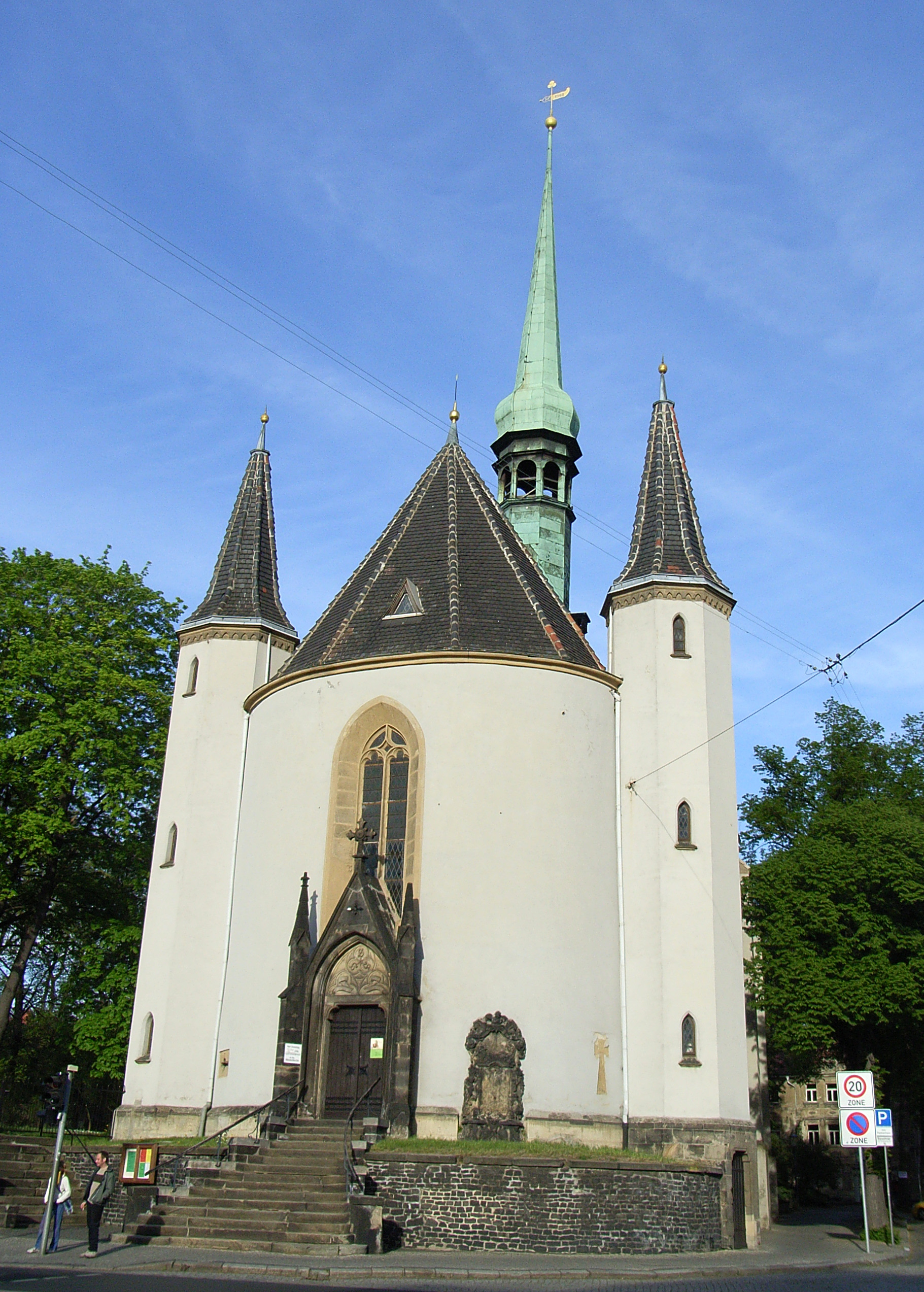 Zittau, Trinity Church (Weberkirche).